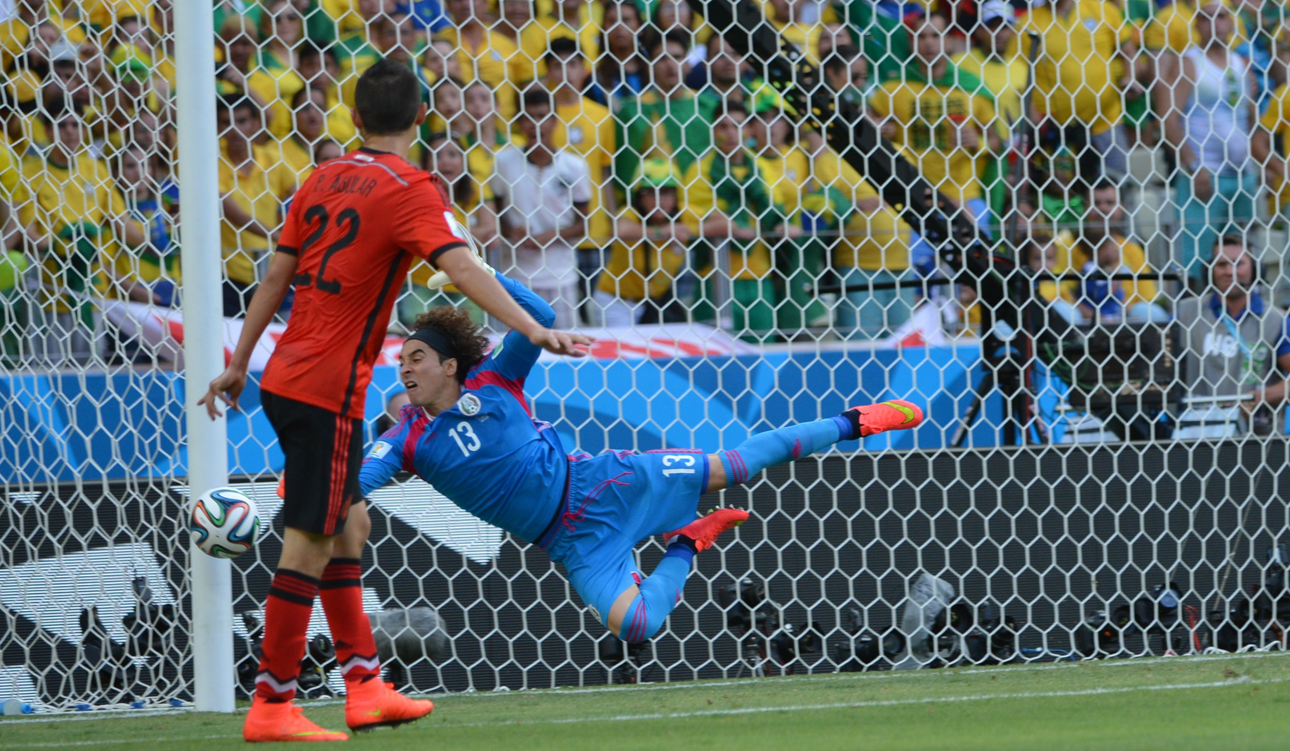 On the day of the keeper Ochoa, Brazil is on the 0 x 0 in Fortaleza